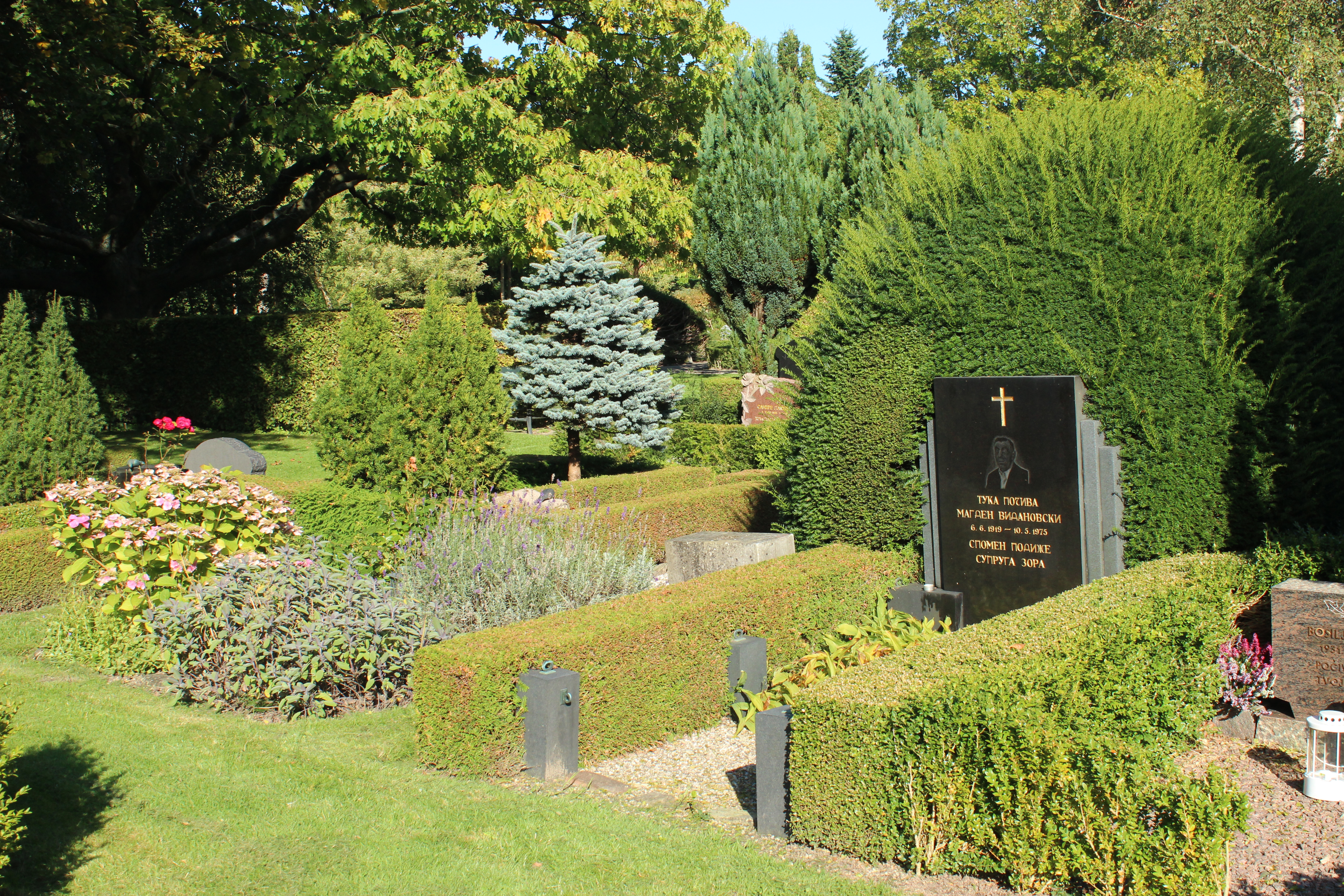 Old Russian area in Bispebjerg cemetery